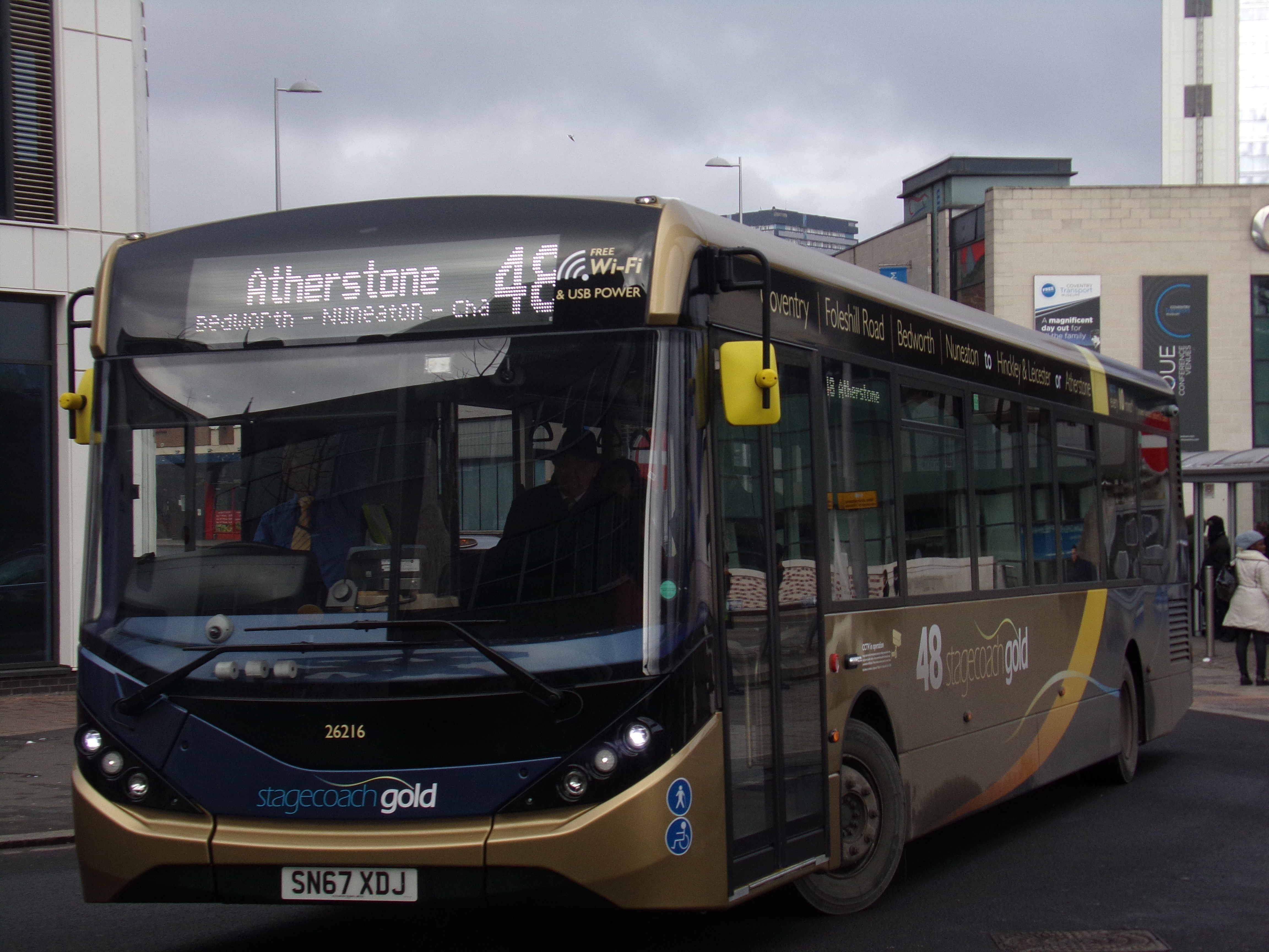 Stagecoach Gold branded Alexander Dennis Enviro200 MMC on Gold route 48, operated by Stagecoach Midlands.